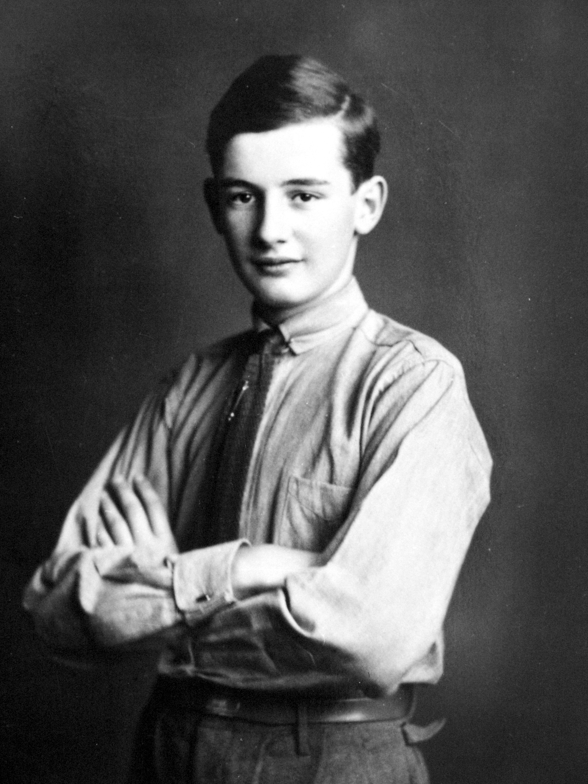 Raoul Wallenberg when he was young.